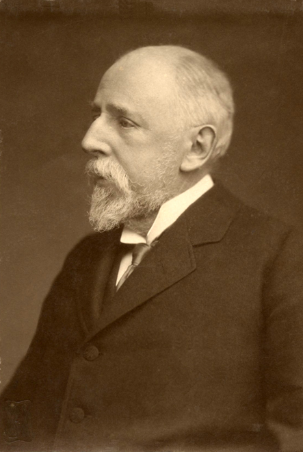 J. Cesar VII Godeffroy Portrait about 1905